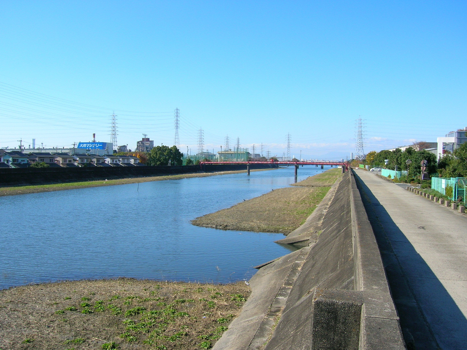 Ōe gawa (Ōe river). Loc: Minato ward, Nagoya city, Aichi Prefecture, Japan. 大江川 撮影場所 愛知県名古屋市港区本星崎町